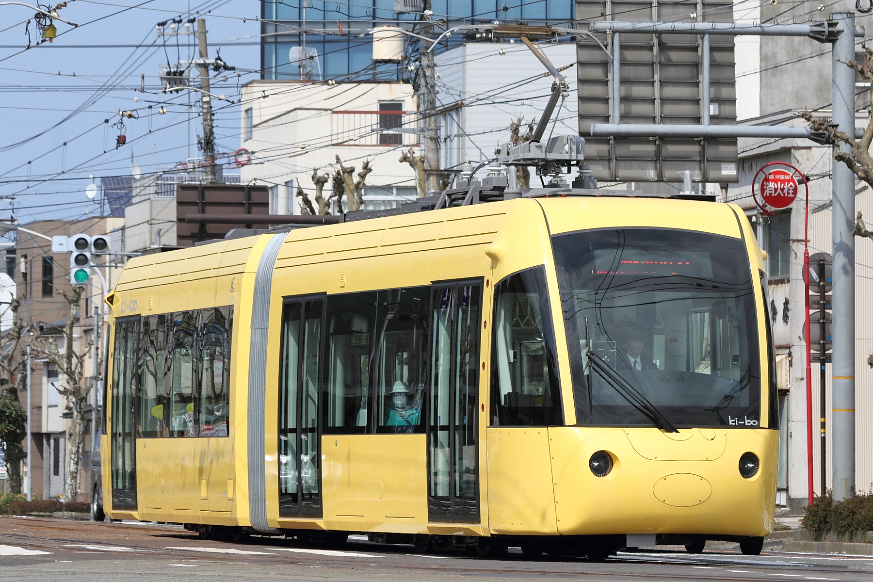 Echizen Railway Type L low-floor tram ("ki-bo"), car number L-01.